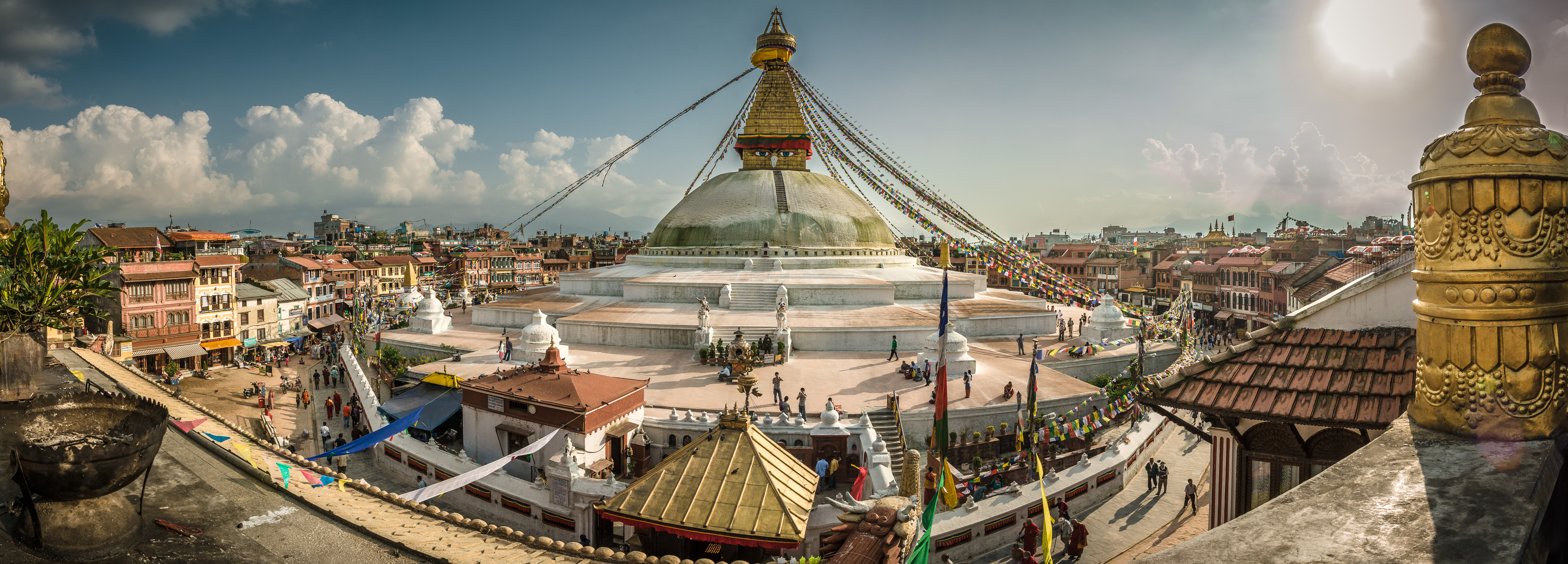 Boudhanath Panorama